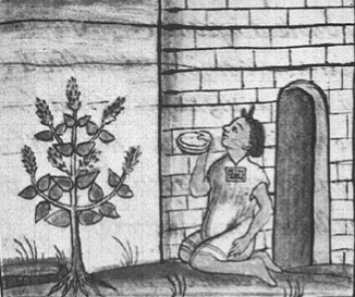 Image from the Florentine codex (1575-1577) by Fr. Bernardino de Sahagun. Library Medicea Laurentiana, Florence. Showing Salvia hispanica plant and woman.